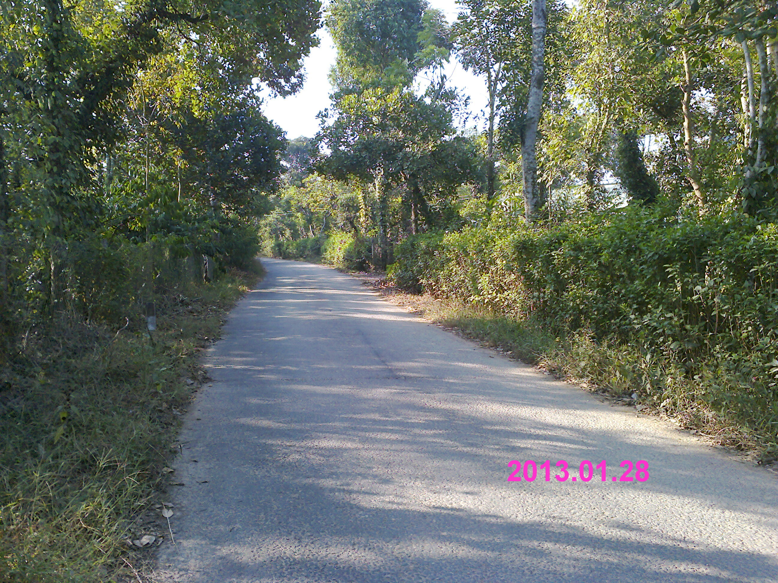 Tan_Phu Country Roads_1